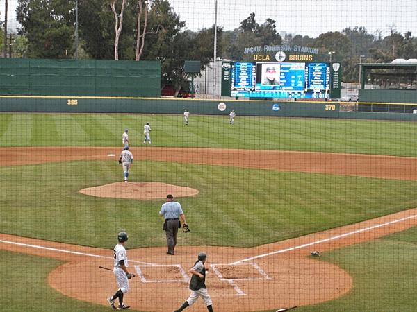 UCLA baseball team playing in the 2013 LA Regional tournament vs. Cal Poly Mustangs